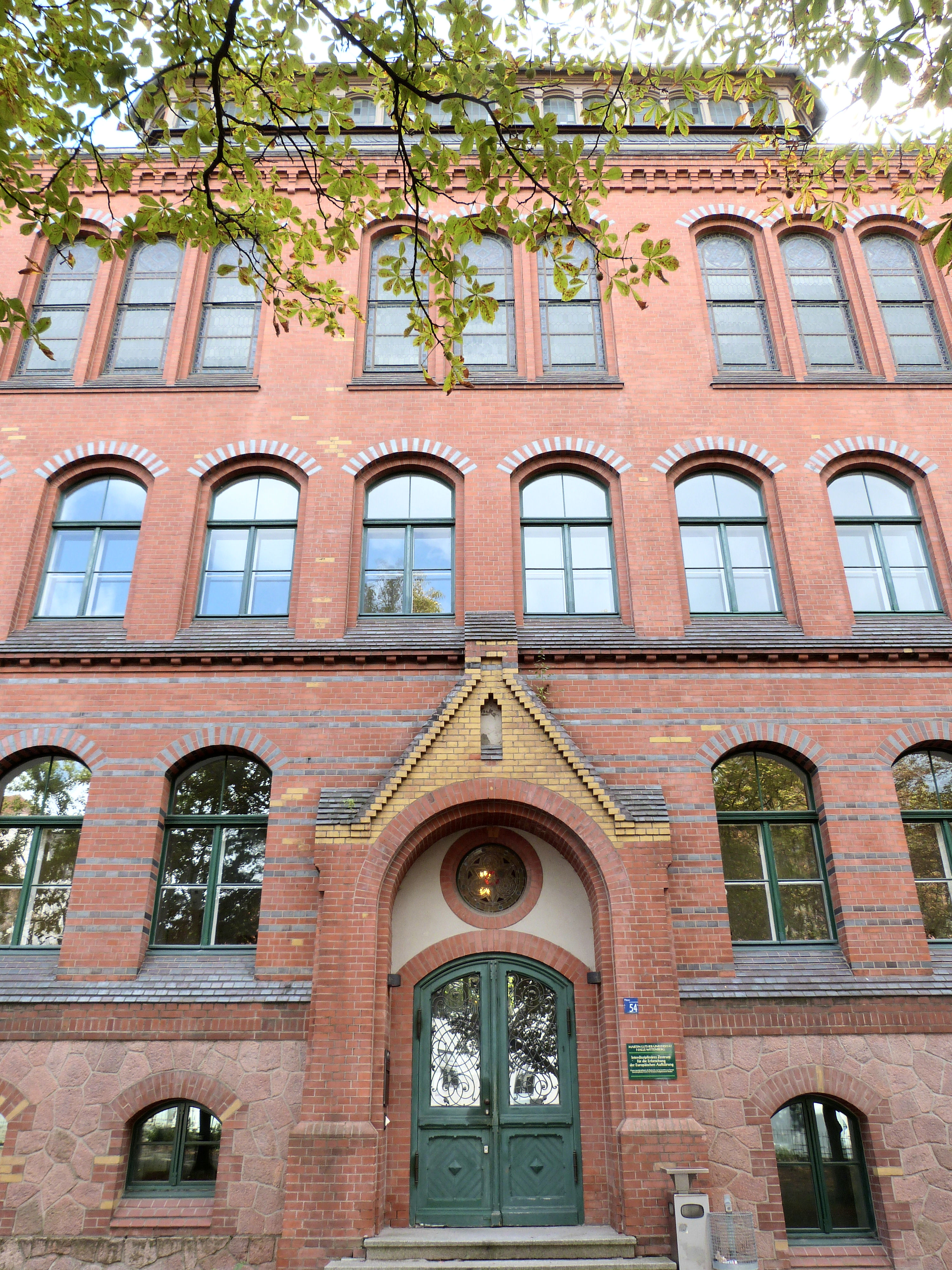 House 54, former Higher Girls' School ("Red school") from 1896 of the Francke foundations in Halle (Saale), today building of the university